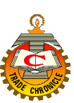 Logo Trade Chronicle Monthly Magazine & Website